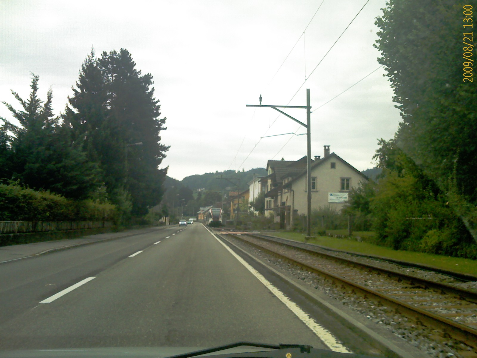 Street at Seon with a train of Seetalbahn, canton of Aargau, SwitzerlandEsperanto: Strato en Seon kun trajno de Seetal-Fervojo, Kantono Argovio, Svislando